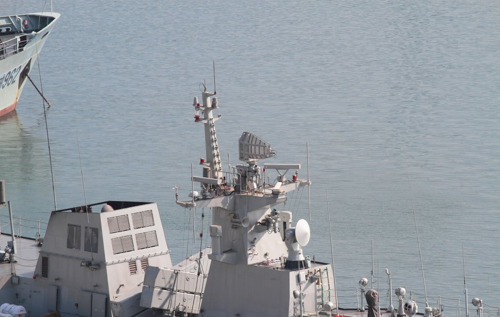 Type 364 air/surface-search Radar and TR47 fire-control radar on board one of the Type 056 corvettes.